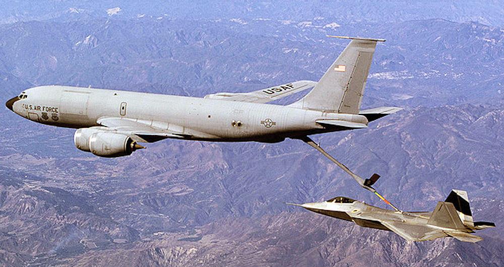 132d Air Refueling Squadron Refueling an F-22